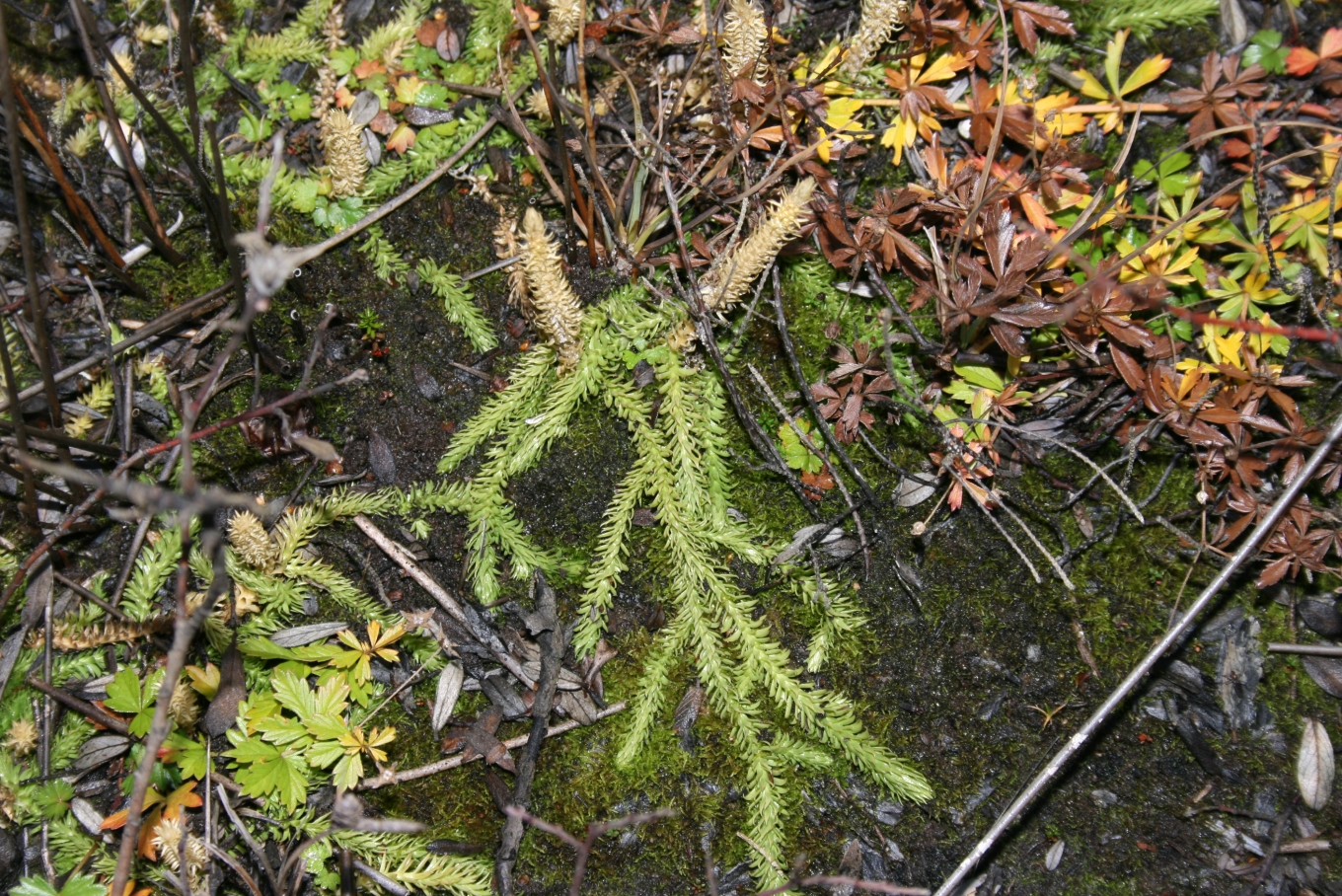 Lycopodiella inundata in a swampy den on old dunes near Ålbæk, Denmark.